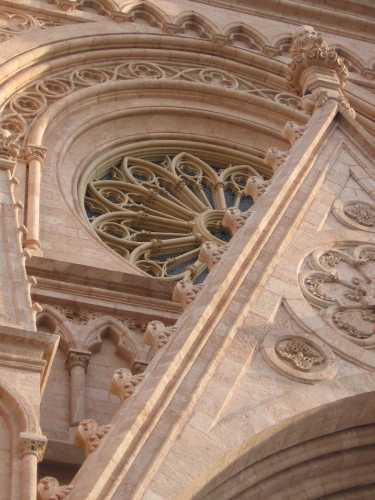 Detail at Nuestra Señora de Luján's church (frontal detail), at Luján, provincia de Buenos Aires, Argentina.